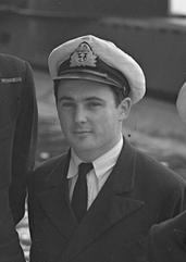 Officers of UPHOLDER. Left to right: Lieut F Ruck-Keene; Lieut Cdr Wanklyn, VC, DSO, RN; Lieut J R Drummond, RN; Sub Lieut J H Norman, RNVR.